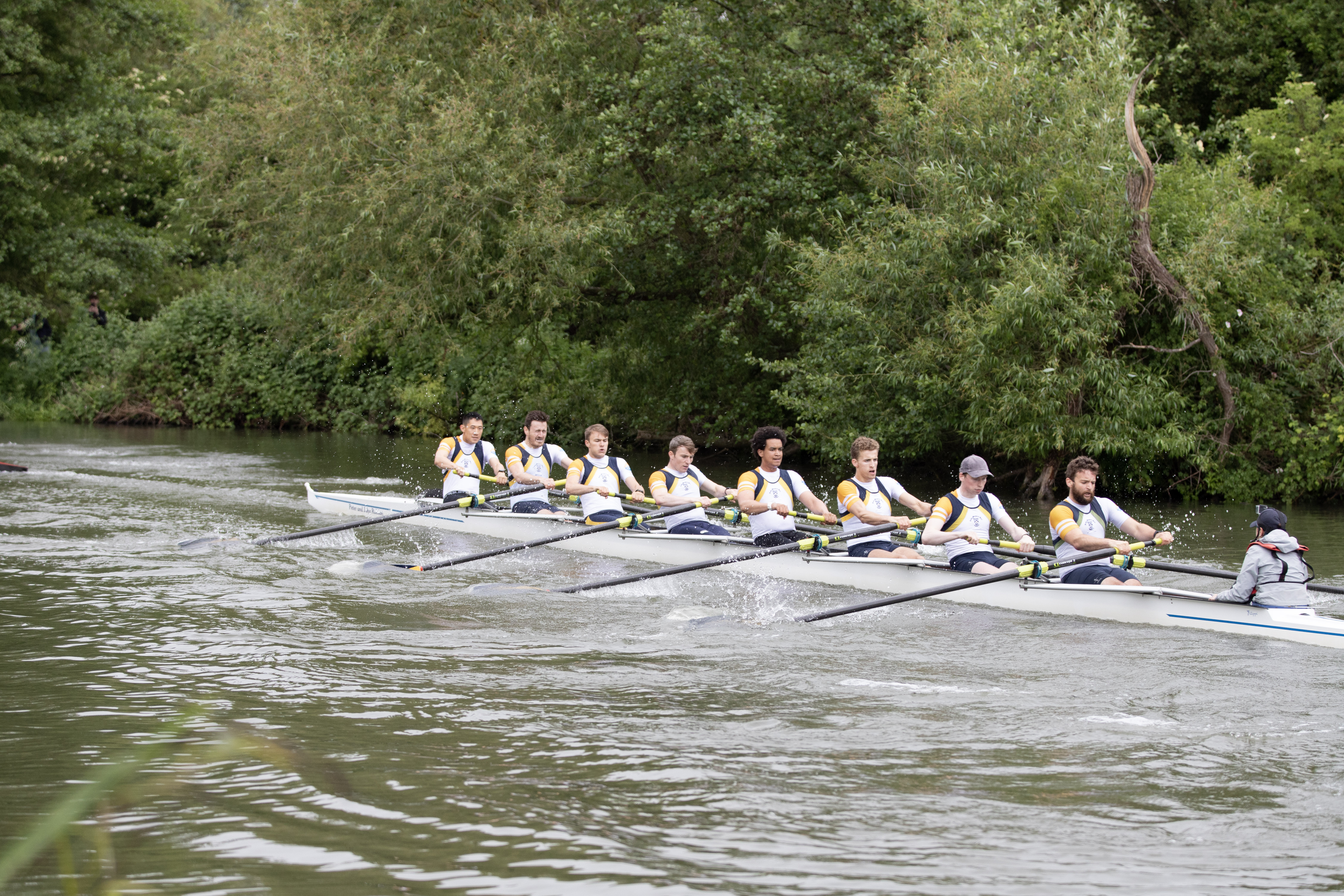 LMH M1 at Summer VIIIs 2019